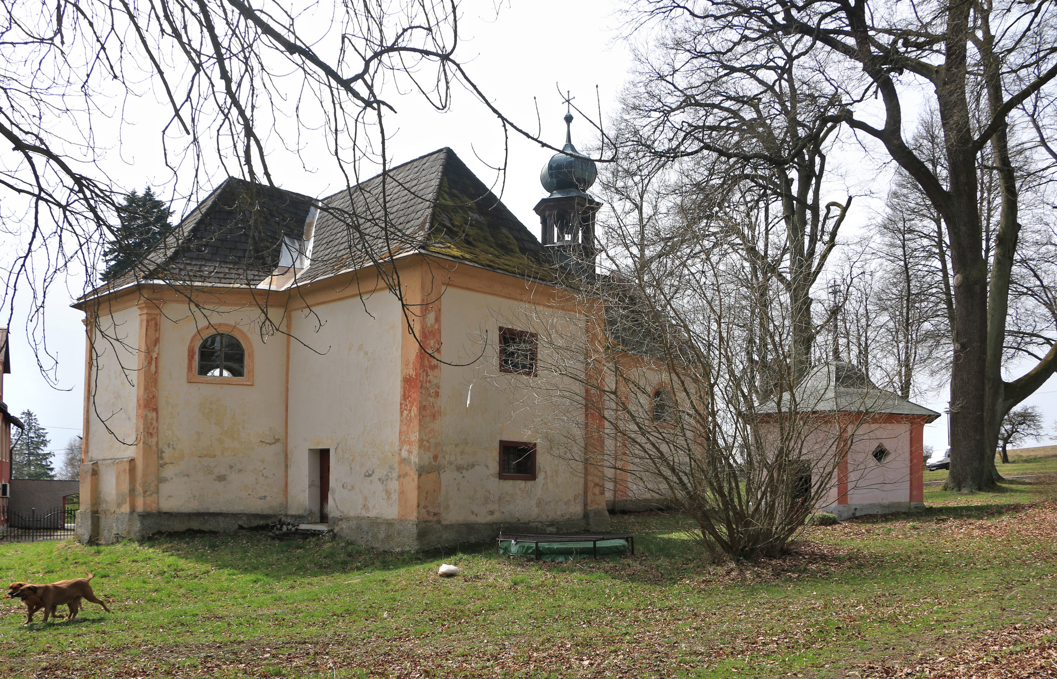 Church in Svatá Anna, part of Vlčeves, Czech Republic.